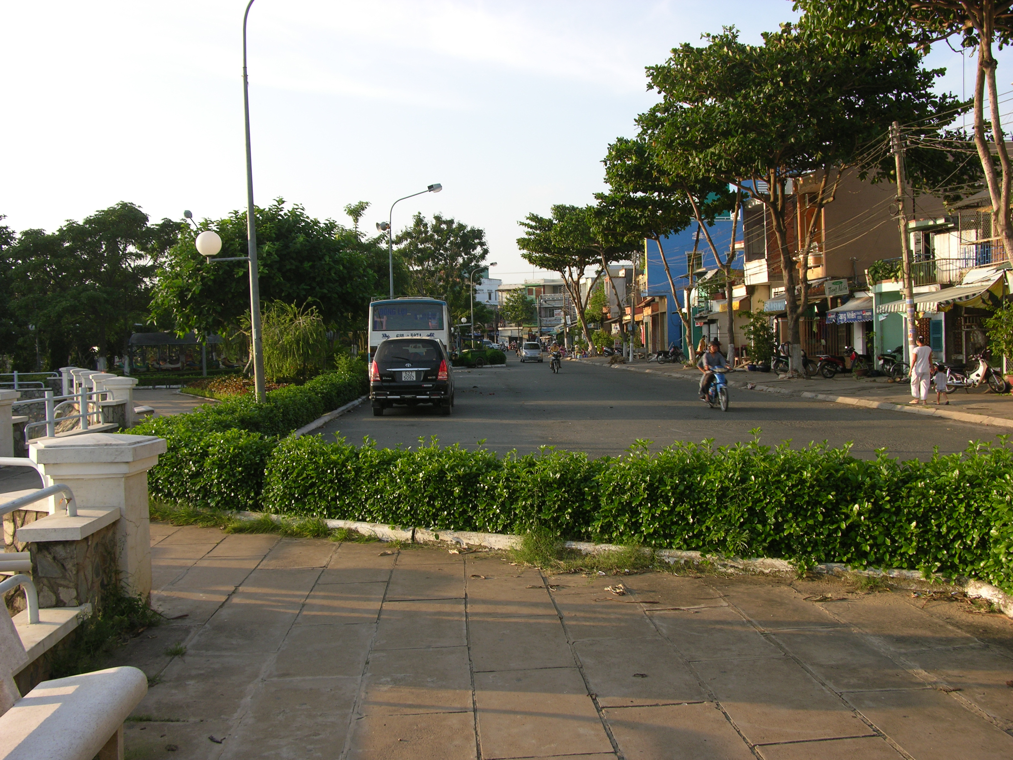 A corner of My Tho city